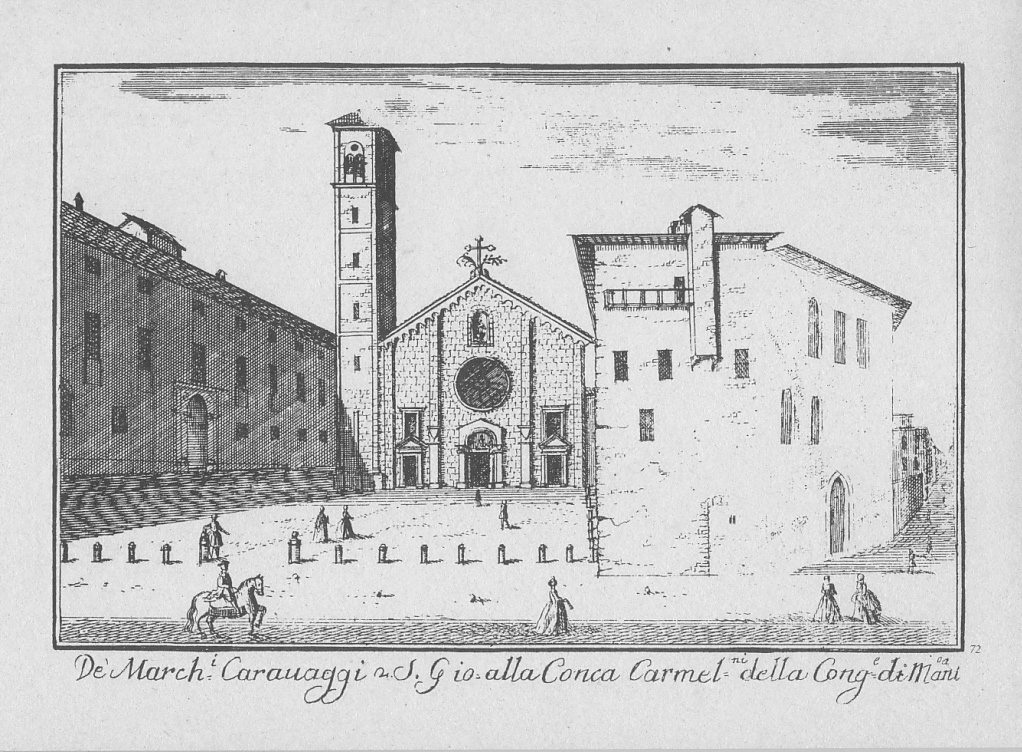 Marc'Antonio Dal Re (1697-1766), 1) Palace of Marquesses of Caravaggio. 2) S. Giovanni alla Conca, Carmelite friars, in Milan, Italy. This engraving is # 72 from a set of 88 Vedute di Milano ("Views of Milan") published by Del Re around 1745. It shows Piazza San Giovanni in Conca square, which is today a part of Piazzale Missori.